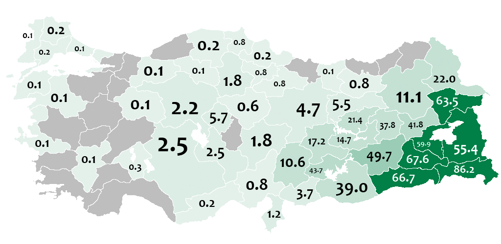 This map shows the distribution of people who spoke Kurdish in 1965's Turkey.